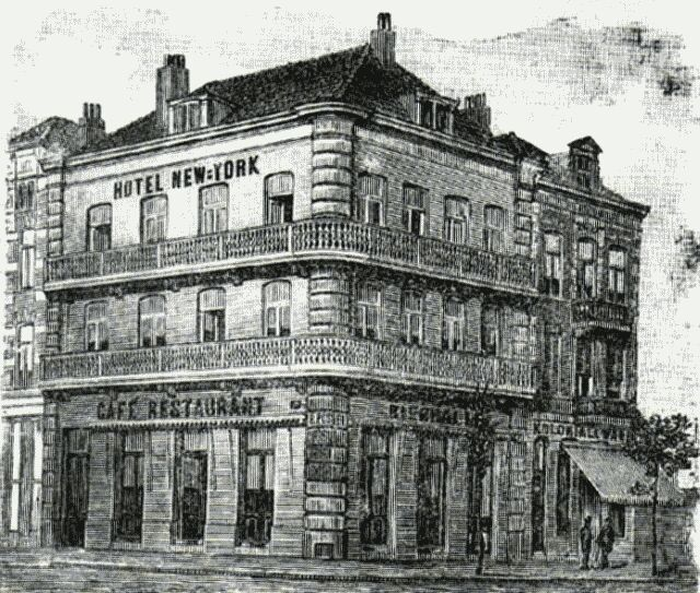 NASM Hotel New:York